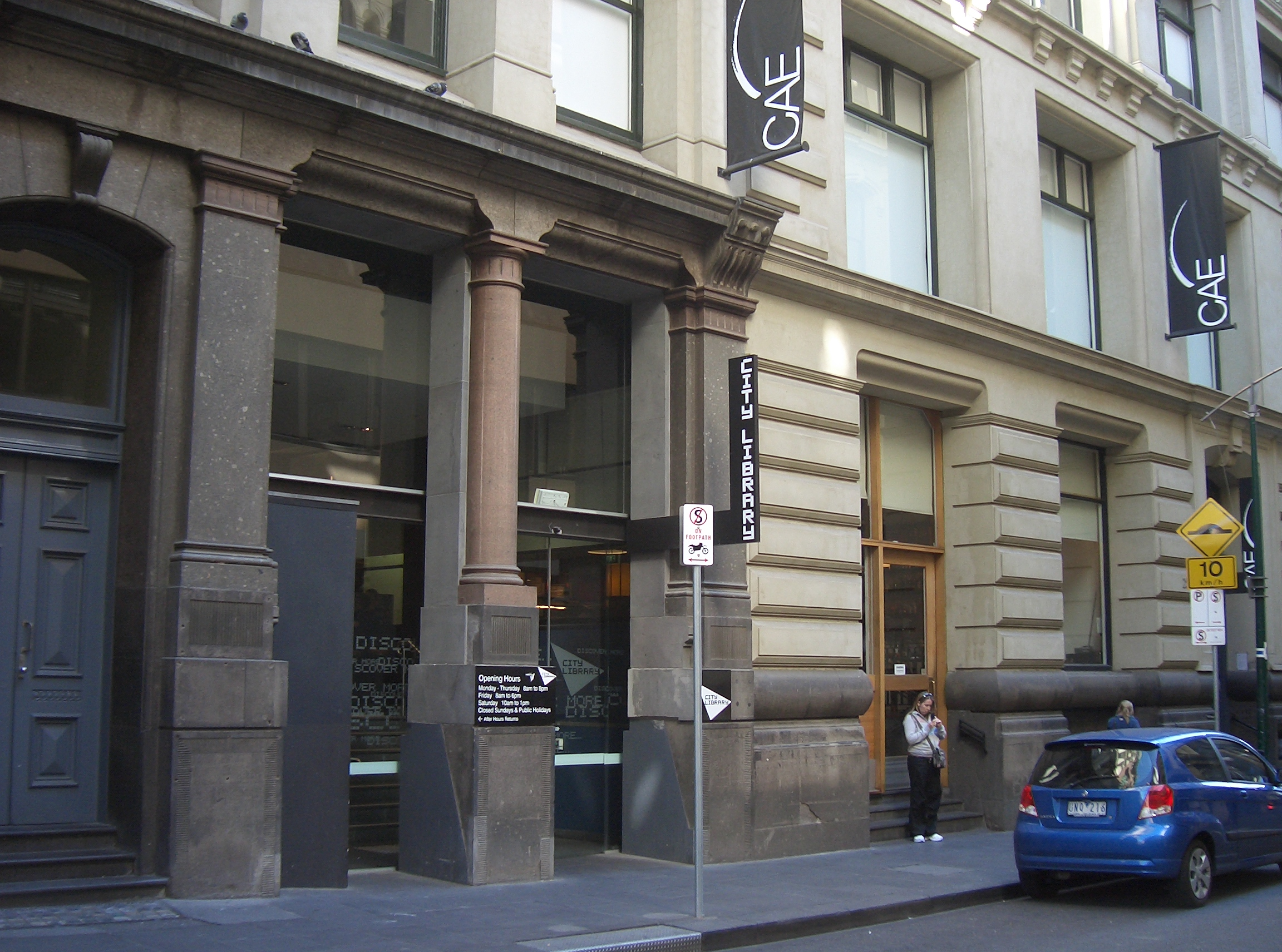 City Library building in Flinders Lane, Melbourne.